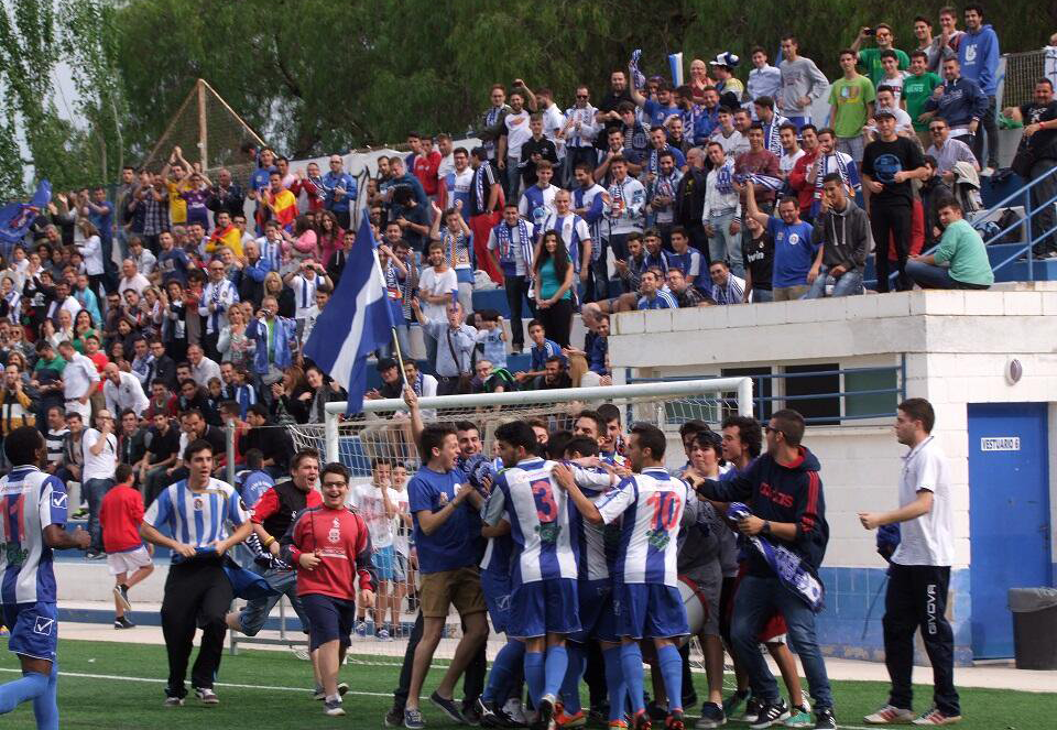 Lorca Deportiva 3